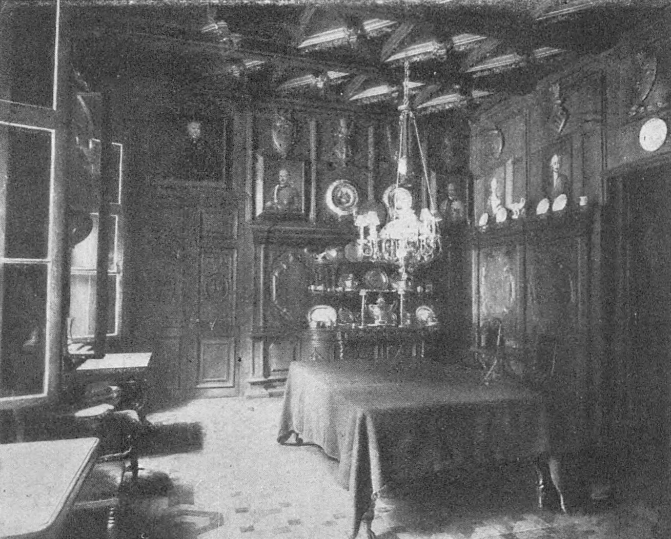 Stańków - interior of manor of Hutten Czapski family